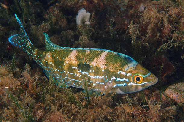 Male Spicara maena photographed in Tuscany (Italy). Photo by Stefano Guerrieri.